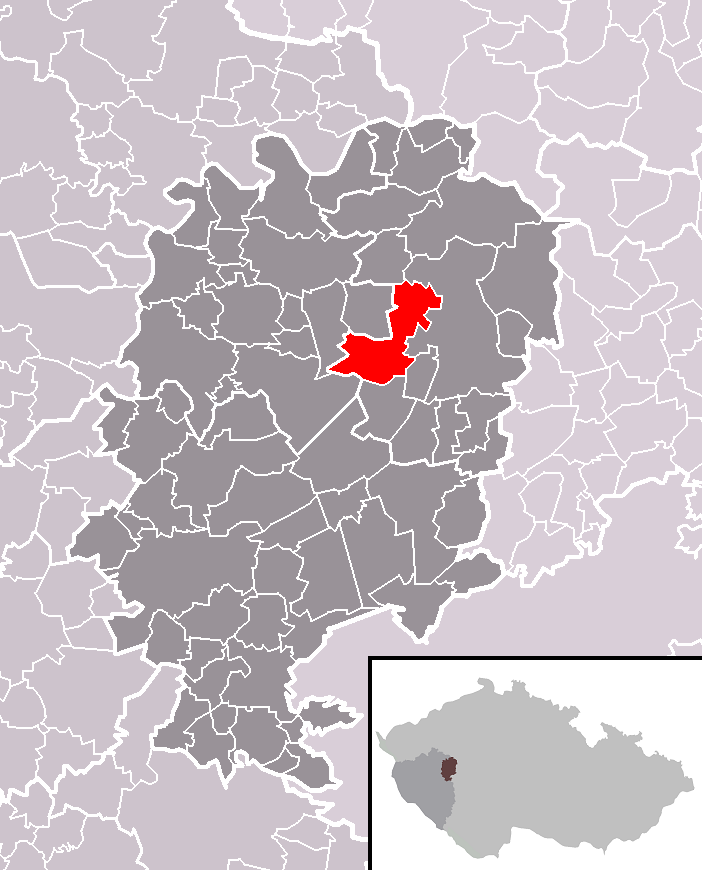 Location of Drahoňův Újezd municipality within Rokycany District and within identical administrative area of Rokycany as a Municipality with Extended Competence.